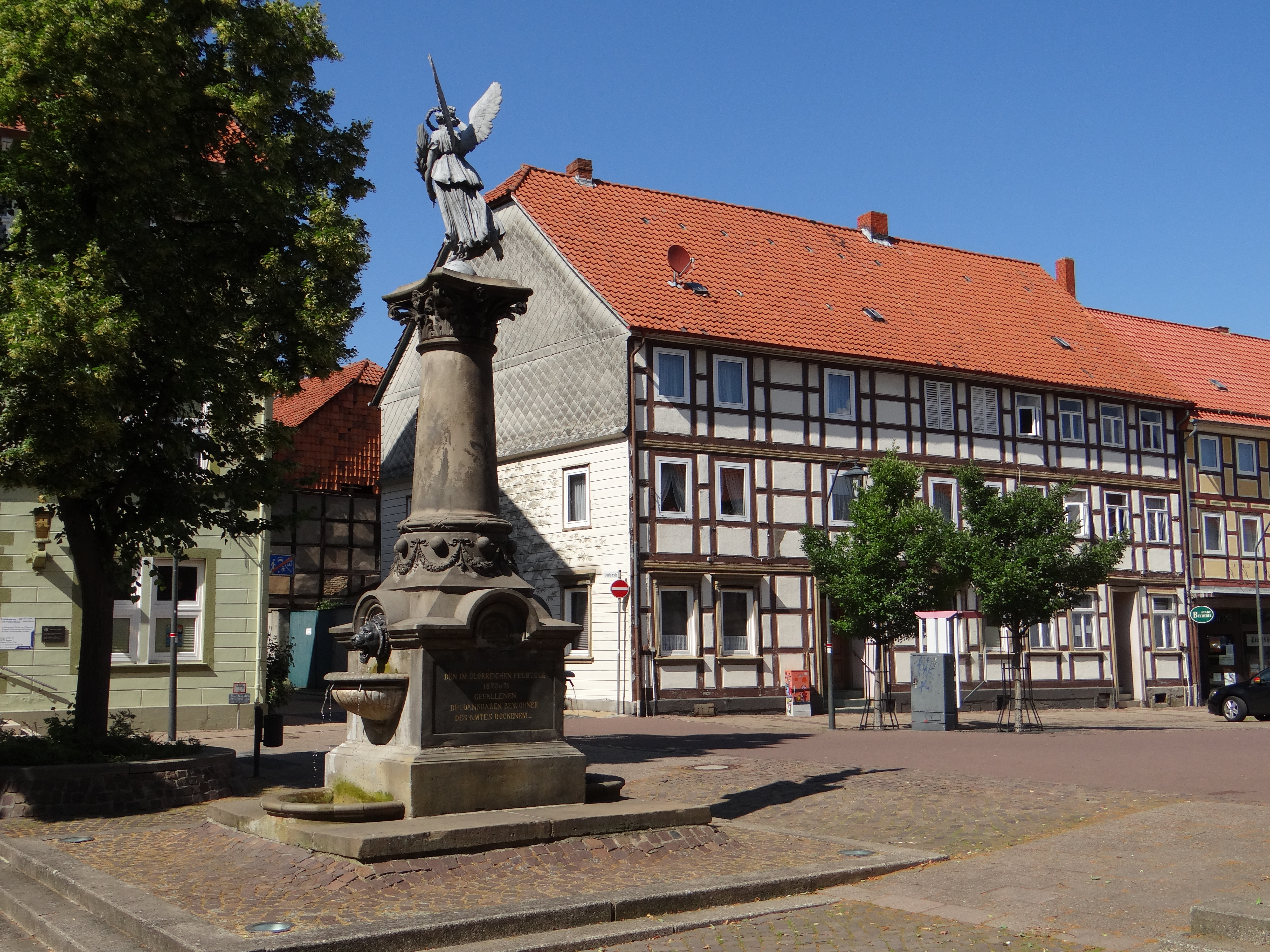 Monument and house at Buchholzmarkt in Bockenem, Germany.